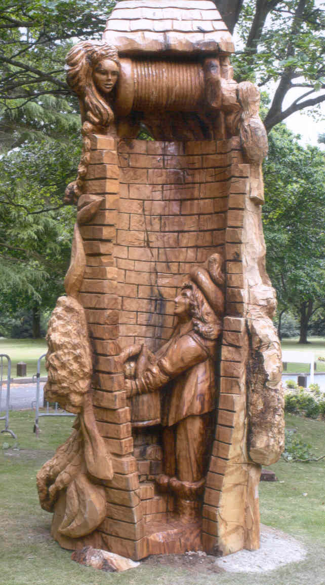 Photo by the artist Steve Field, of his Sweet Chestnut carving, which commemorates the English Civil War and depicts Prince Rupert hiding from the Roundheads in the well at Wollescote Hall.